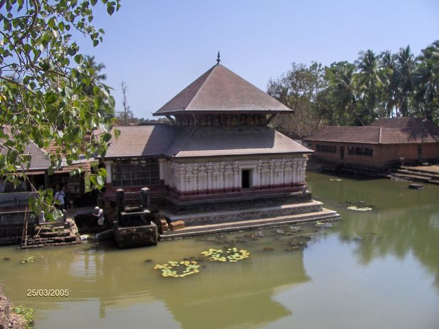 Sureshan Karichery